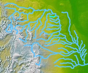 Knife River © 2004 Matthew Trump